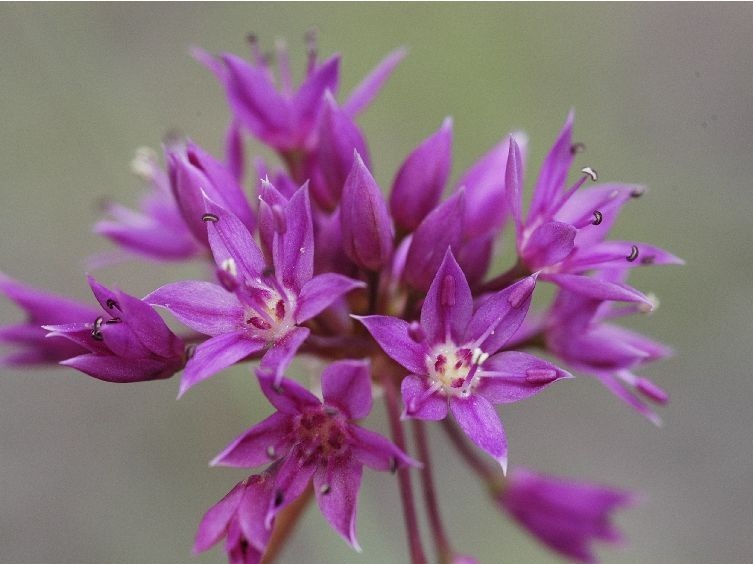 Allium bisceptrum flower.